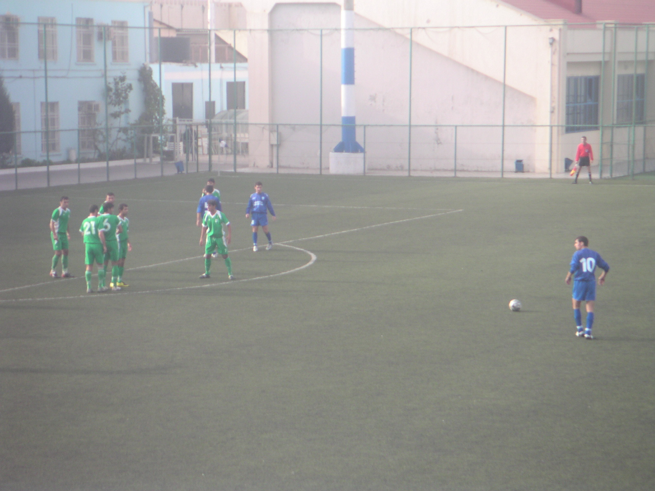 Inter Baku at play in November 2007 in one of the back fields behind Shafa Stadium, Baku, Azerbaijan.